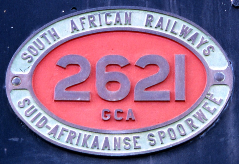 SAR Class GCA 2621 (2-6-2+2-6-2) number plate Location: Nelspruit